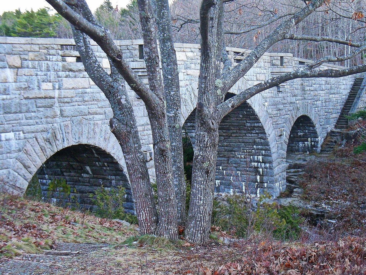 Duck Brook Bridge is the main starting point of the over 40 miles of carriage roads you can bike, hike, jog or take horses on in Acadia National Park. Photo taken in Fall.